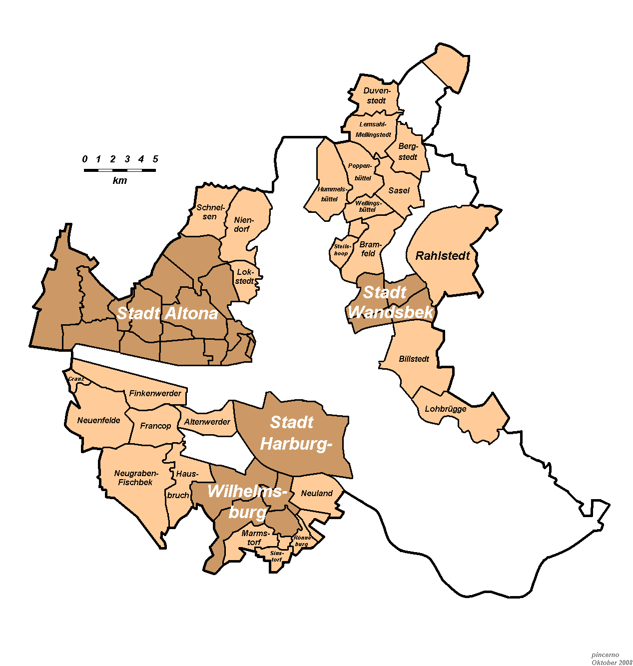 Greater Hamburg Act.